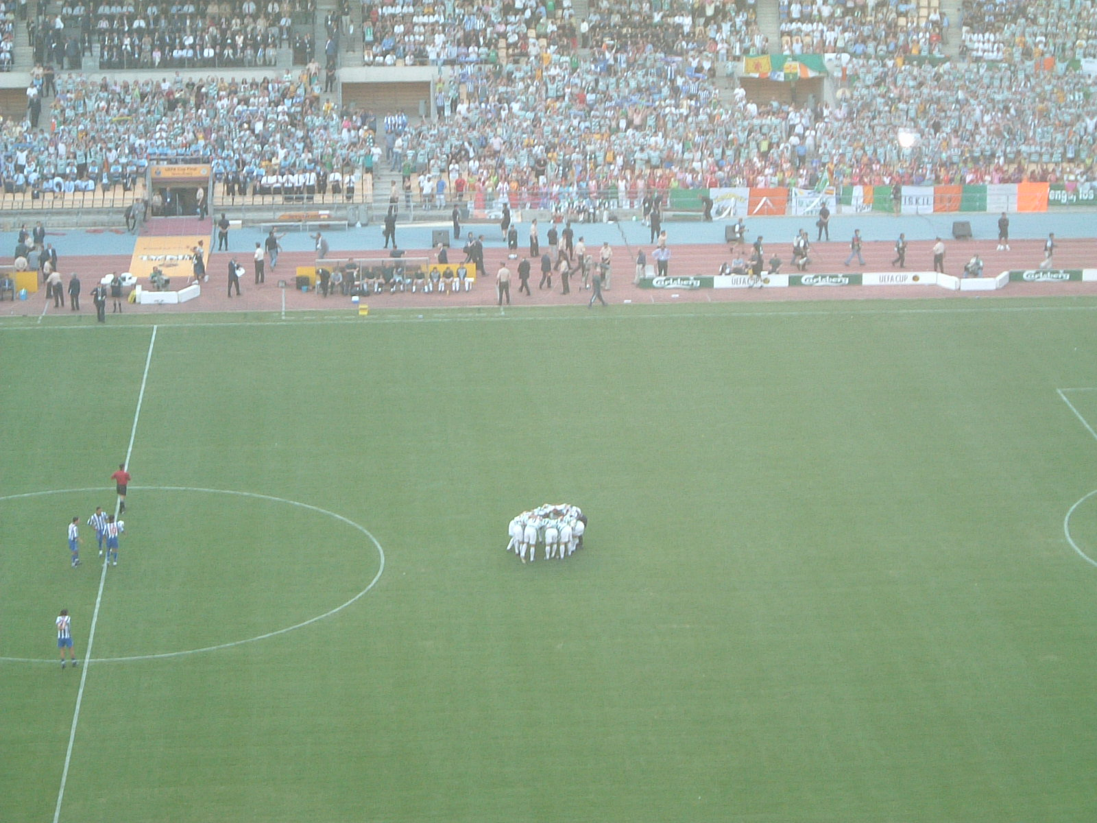 Photo taken at UEFA Cup final 2003 by a friend of mine. Camillus (talk) 14:31, 13 March 2006 (UTC)